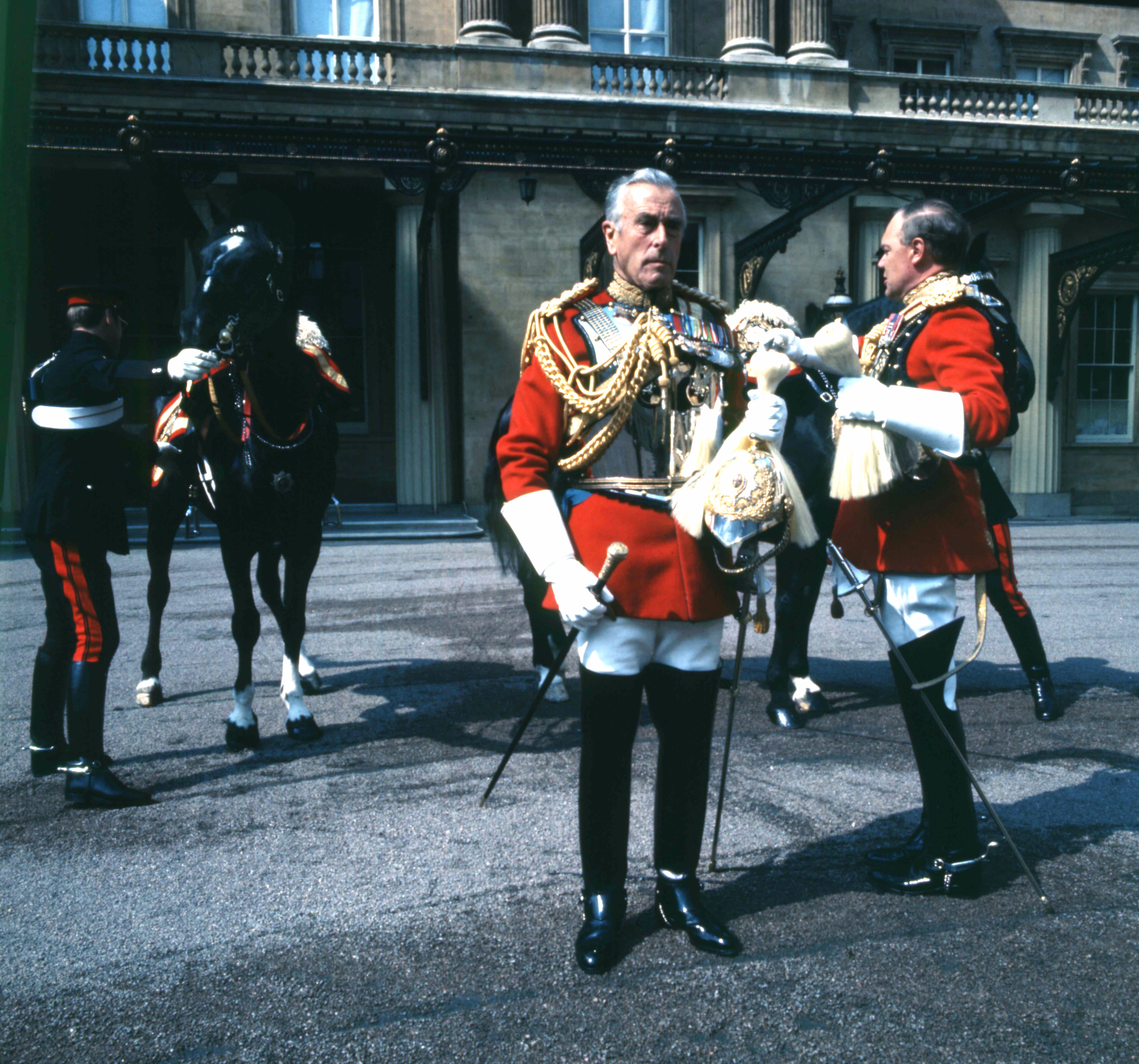 Earl Mountbatten of Burma